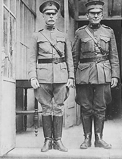 Then Brigadier General John A. Lejeune became the first Marine officer to hold an U.S. Army divisional command when he assumed command of the 2d Division, U.S. Army in France on 28 July 1918. He remained in that capacity unit the unit was demobilized in August 1919. He is pictured here next to Major General Omar Bundy, United States Army, former commanding general of the same unit. (Official Marine Corps Photo # 22408)